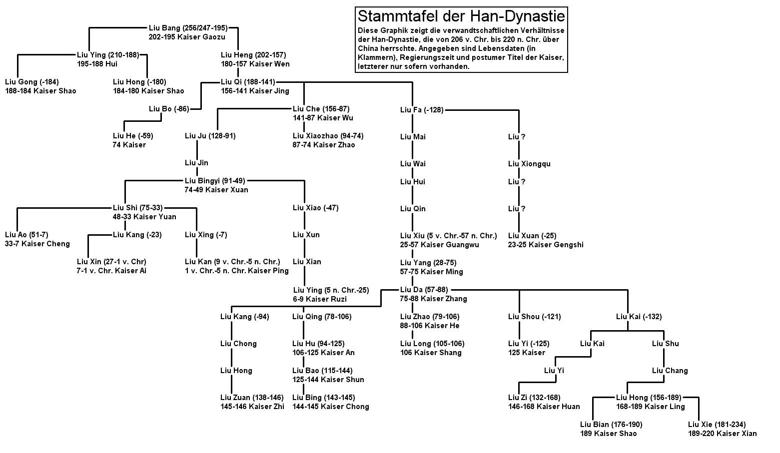 Complete family tree of the Han Dynasty.